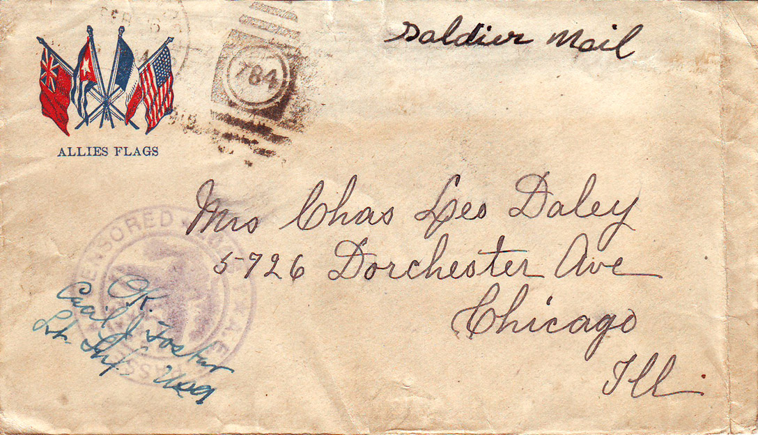 WWI pen franked U.S. "Soldier Mail" cover with Allied Expeditionary Forces passed censorship hand stamp. 1918